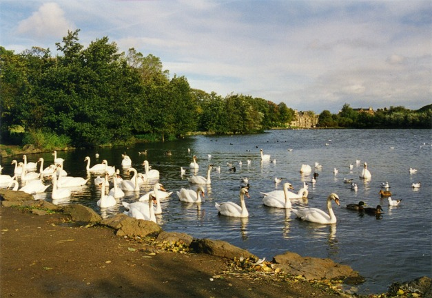 Swans at St Margaret's Loch,Edinburgh